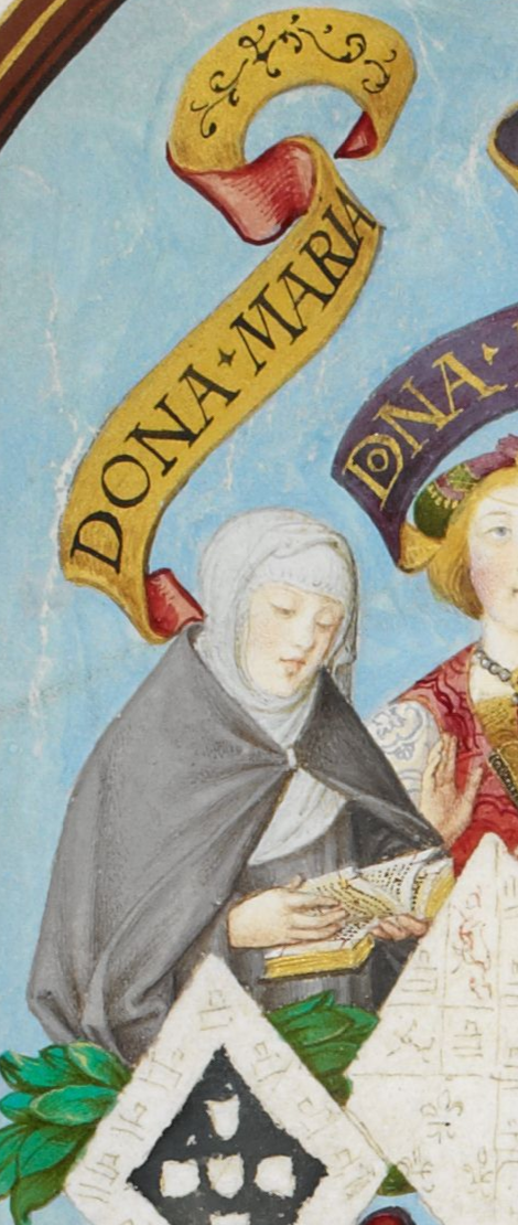 D. Mary (1302-1320), daughter of King Denis I of Portugal, in a 16th century miniature.